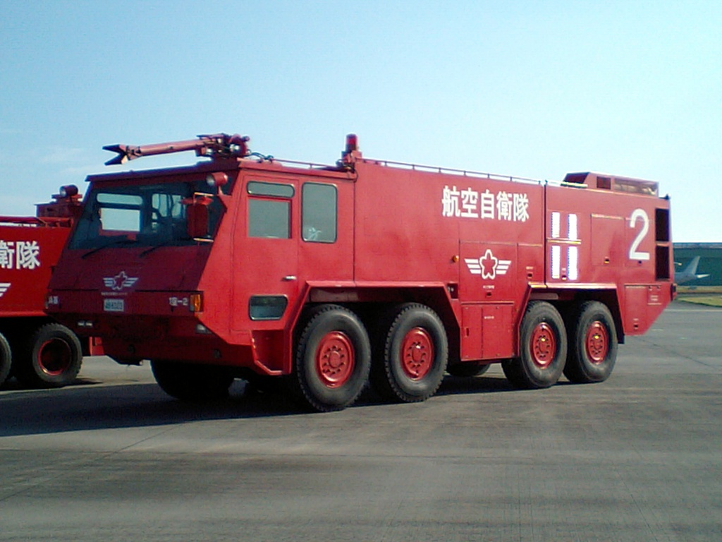 Crash tender A-MB-3